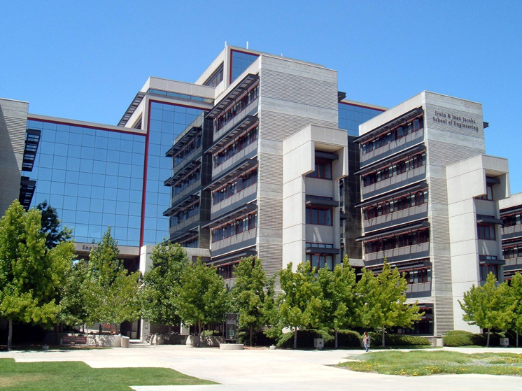 Irwin & Joan Jacobs School of Engineering